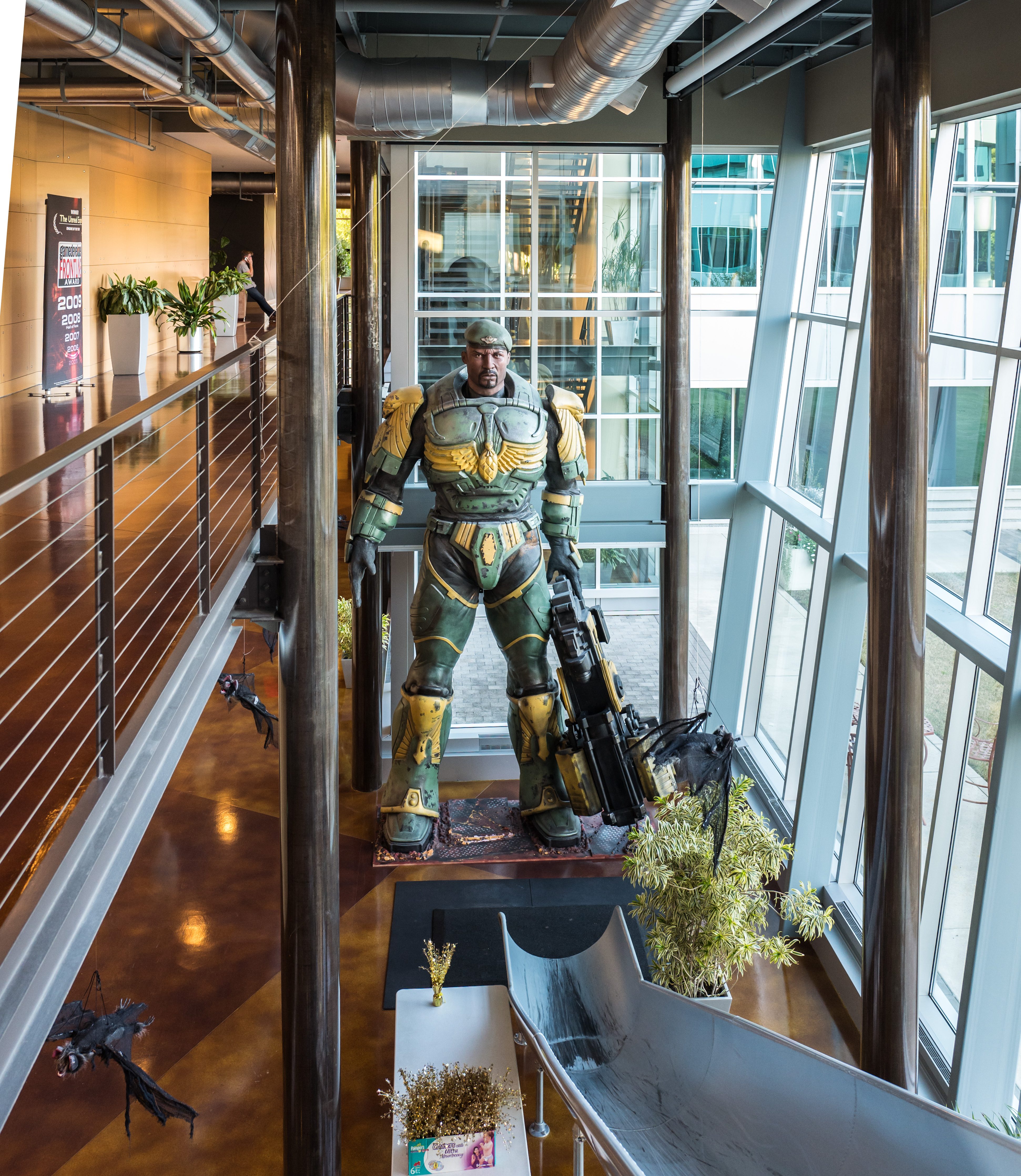 View on the statue. Epic Games HQ, Cary